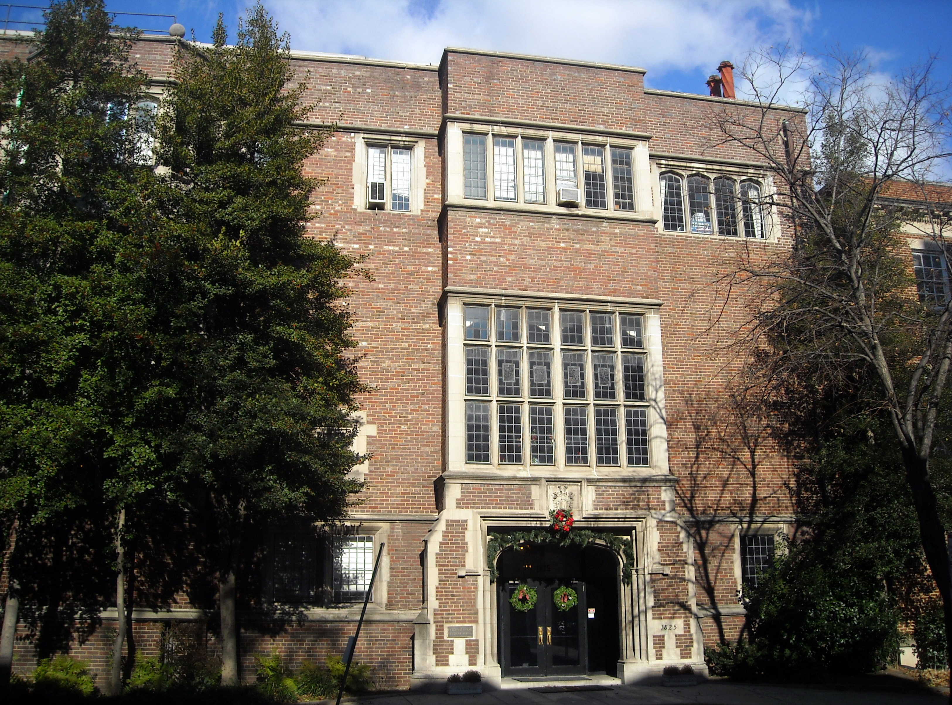 International Student House located at 1825 R Street, in the Dupont Circle neighborhood of Washington, D.C. The building was constructed in 1912 and designed by Clarke Waggaman. The original owner was Helen S. Meserve, followed by Demarest Lloyd. In 1946 ISH purchased the building from Lloyd. Two additional buildings have been added to the property including Van Slyck (ca. 1967; former site of tennis and volleyball courts) and Marpat Hall (formerly 1824 Riggs Place, NW).